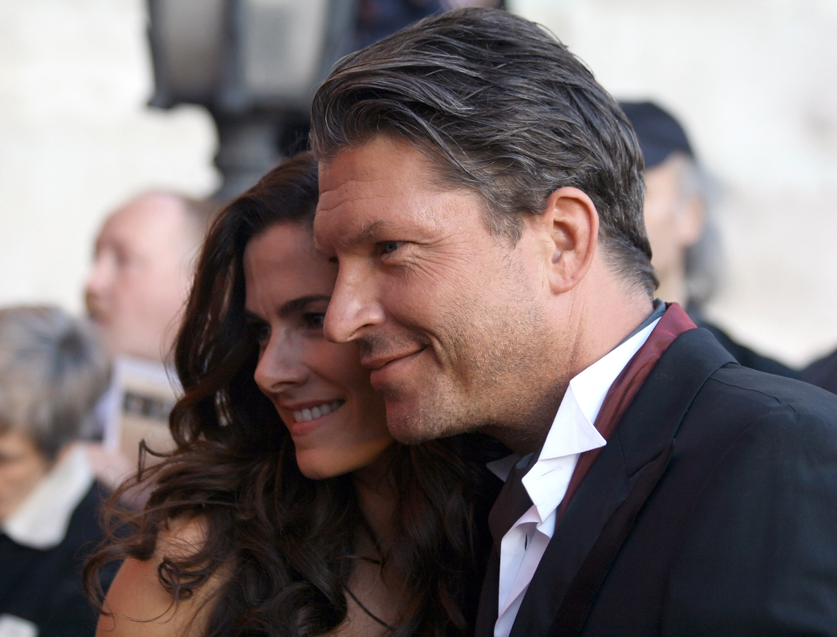 Hardy Krüger junior and Katrin Fehringer at the Romy TV awards (Hofburg Imperial Palace in Vienna)